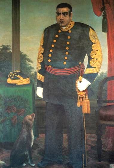 西郷肖像 (Portrait of Saigō) by Tokonami Masayoshi. Saigo Takamori in uniform. 1887 painting on canvas. Posthumous portrait by Tokonami, who knew the subject in person. 181 cm by 103.5 cm.